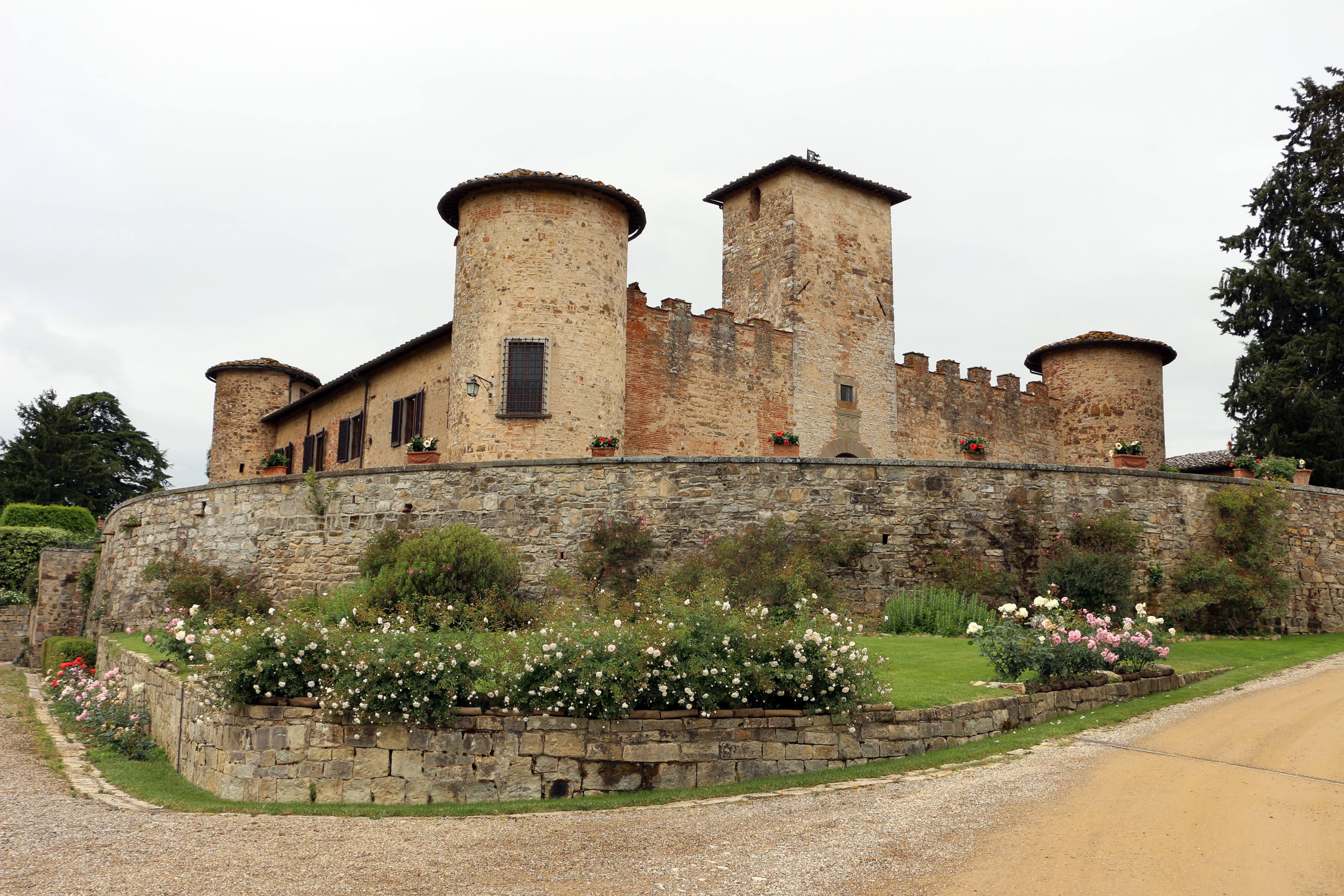 Castello di Gabbiano